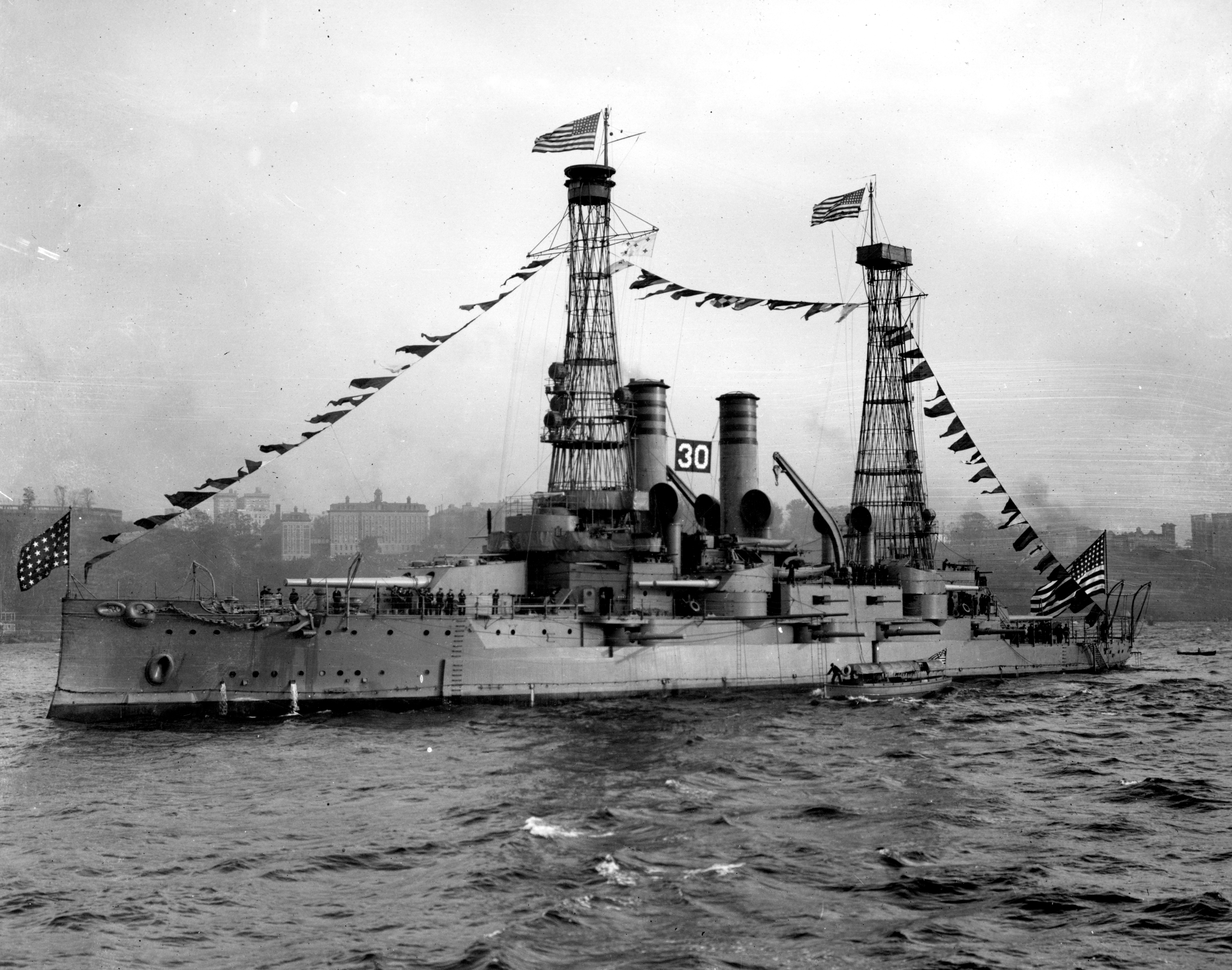 (Battleship # 24) Dressed with flags during the Naval Review off New York City, October 1912. Photograph from the Bureau of Ships Collection in the U.S. National Archives.